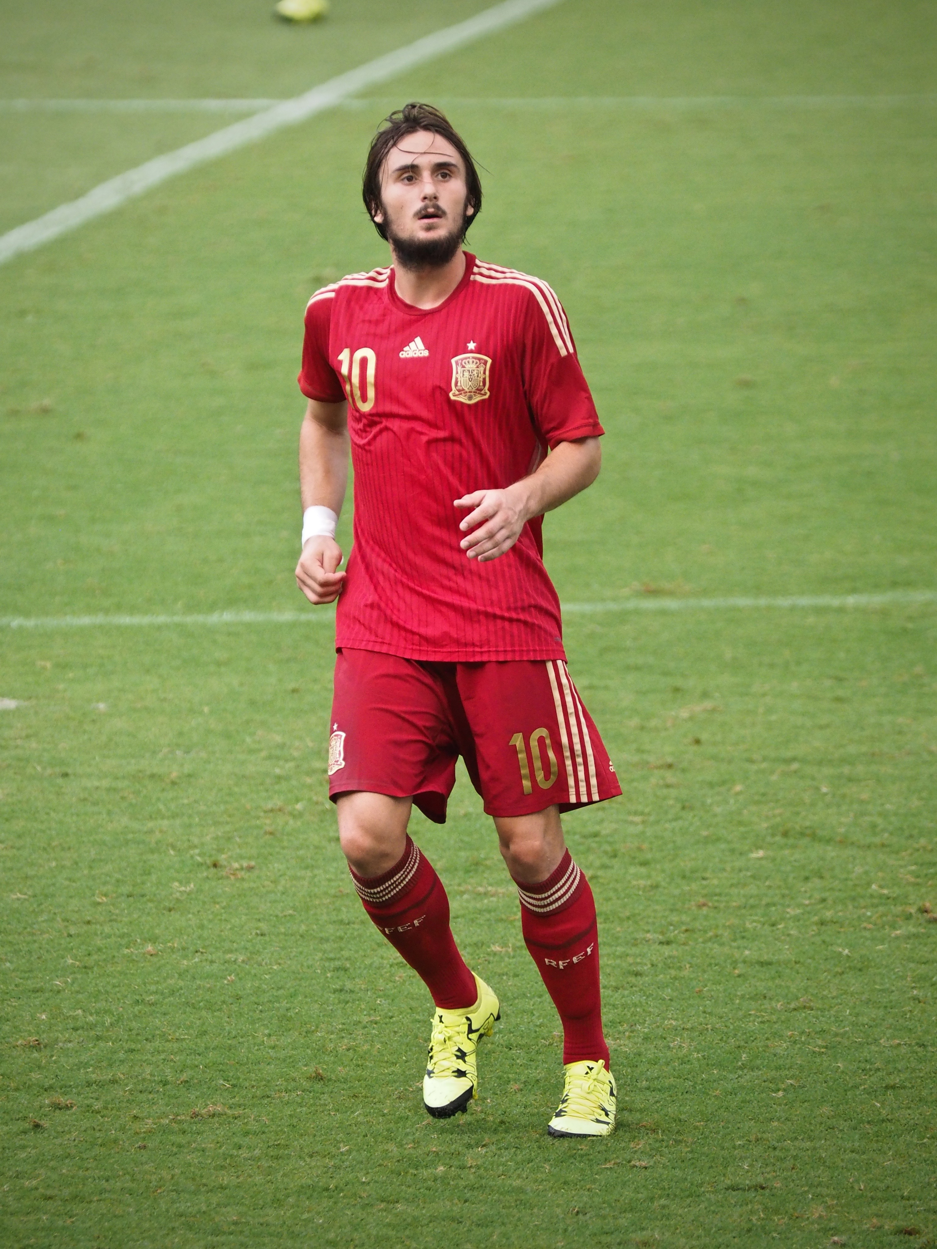 ALEIX GARCÍA SERRANO playing for Spain U18 in the 2015 SBS Cup